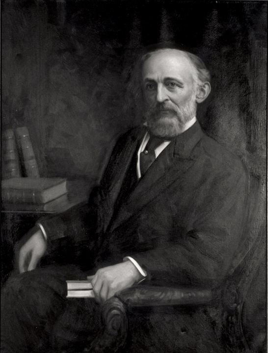 Oscar Straus (1850-1936), U.S. Secretary of Commerce and Labor.